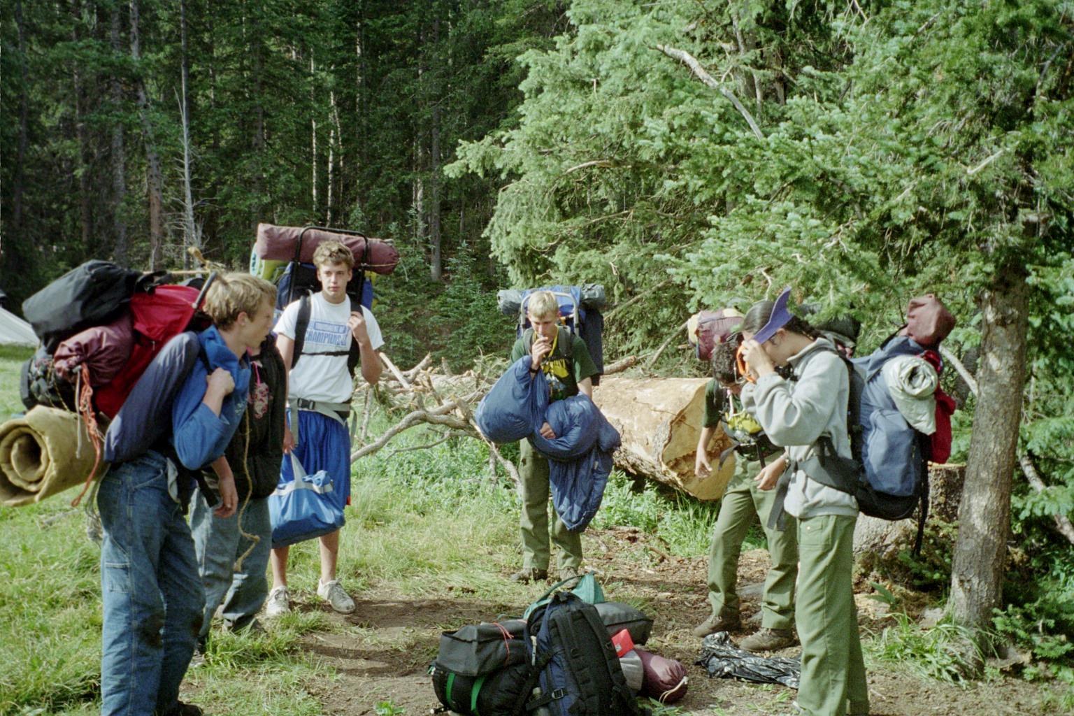 A team of Varsity Scouts getting ready to head out on a backpacking trip.